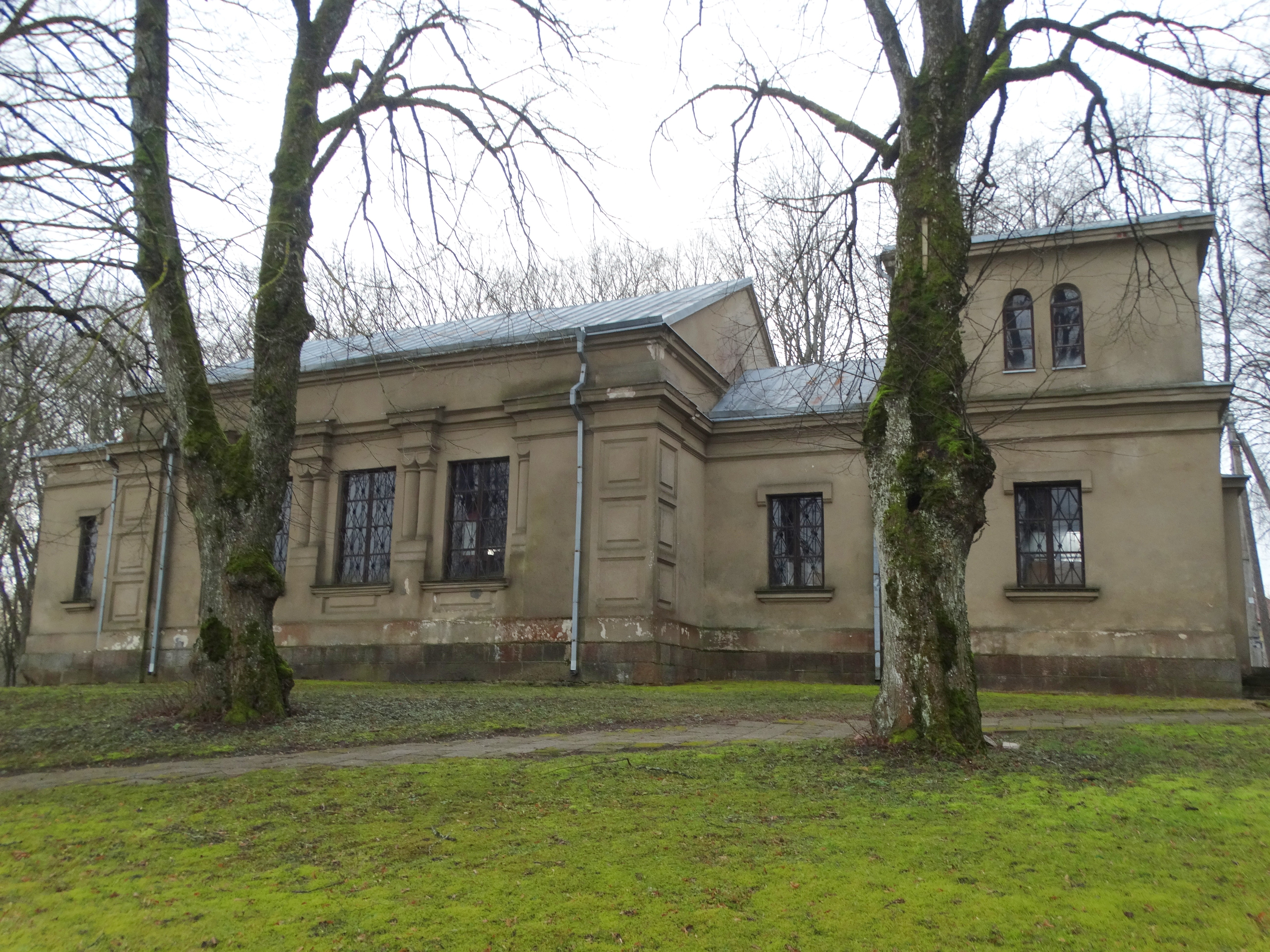 Former manor church, Skuodas, Lithuania